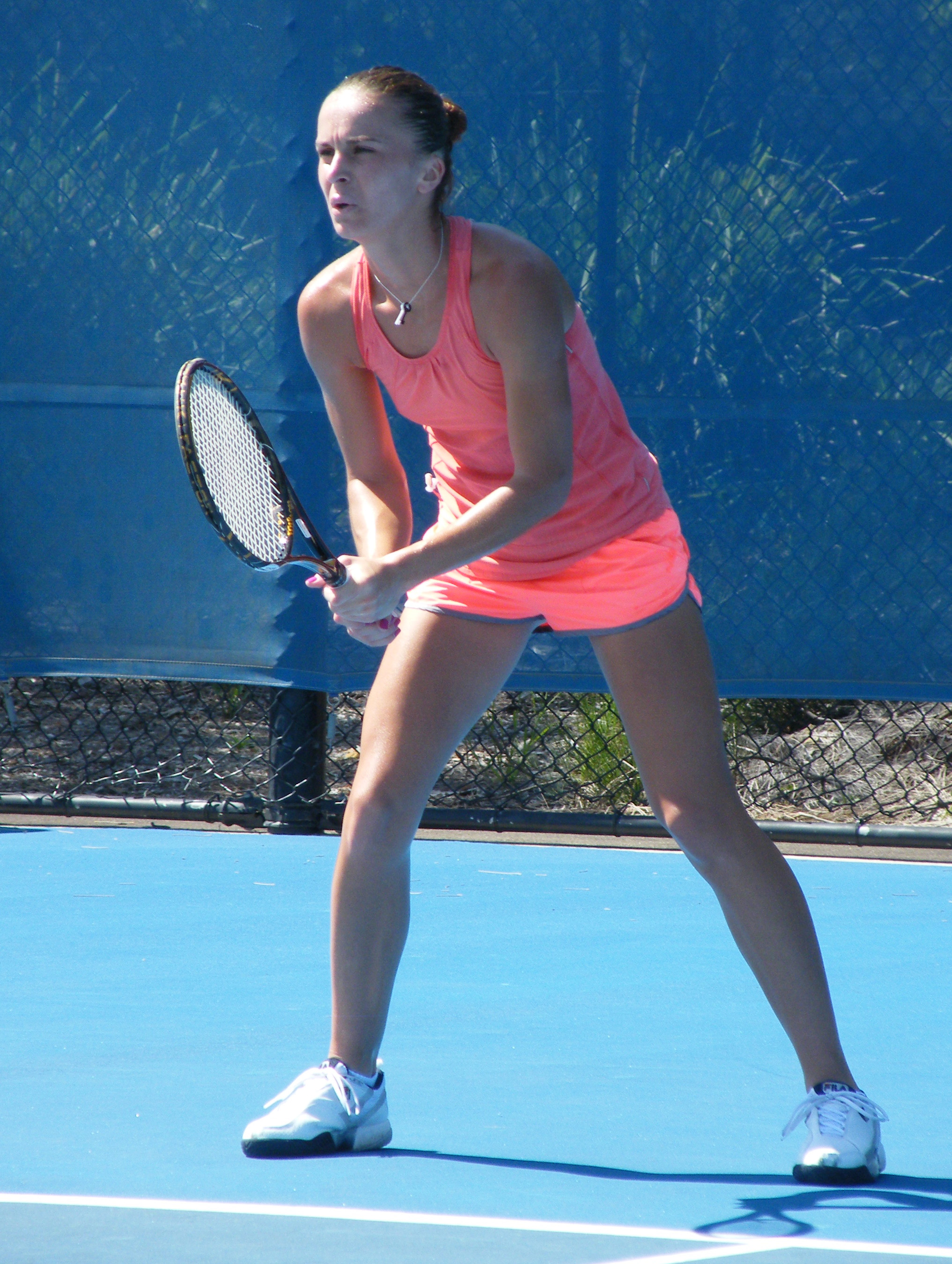 Karolina Sprem at the 2010 NSW Medibank Tennis Open.